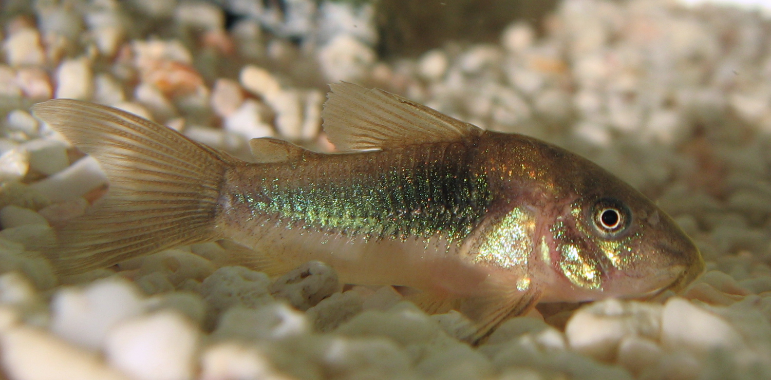 A Bronze Corydoras (Corydoras aeneus) owned by the author.